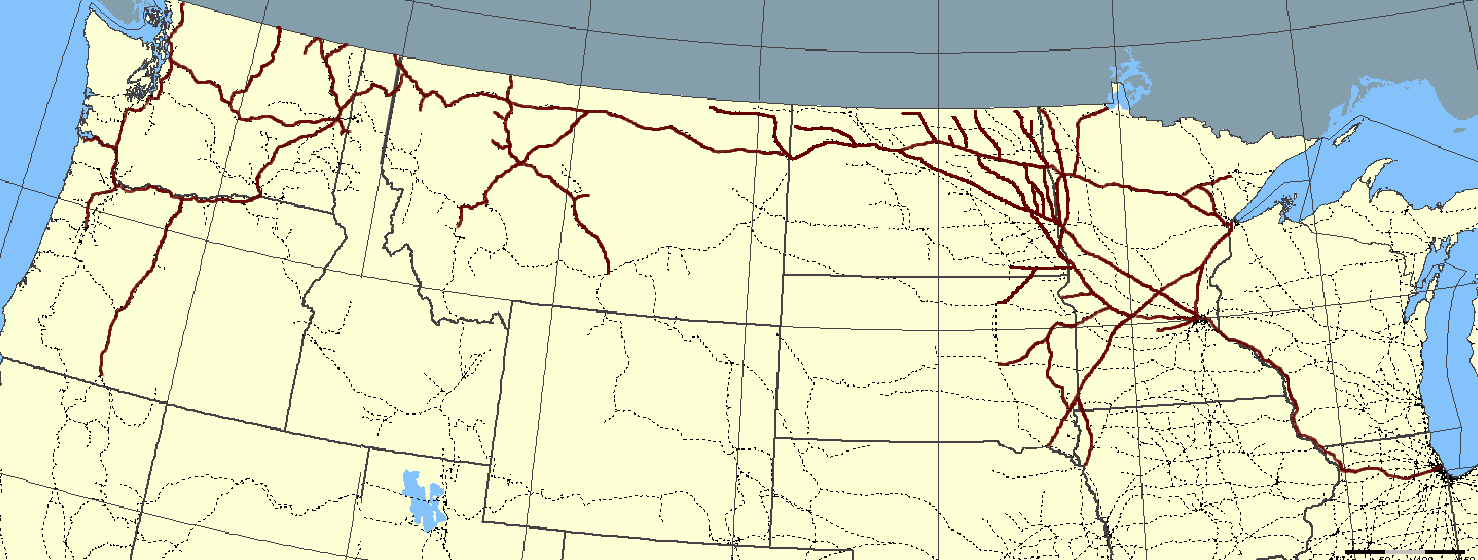 Route map from the Great Northern Railway (US), circa 1920. Red lines are the GN route; dotted lines are other railroads. Created from the Map Maker at and routes drawn in, using a 1920 map as a reference.